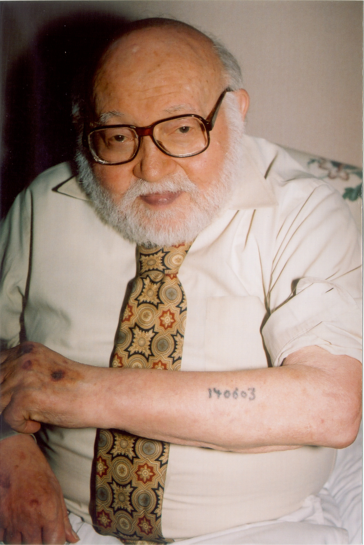 Auschwitz survivor Sam Rosenzweig displays his identification tattoo.